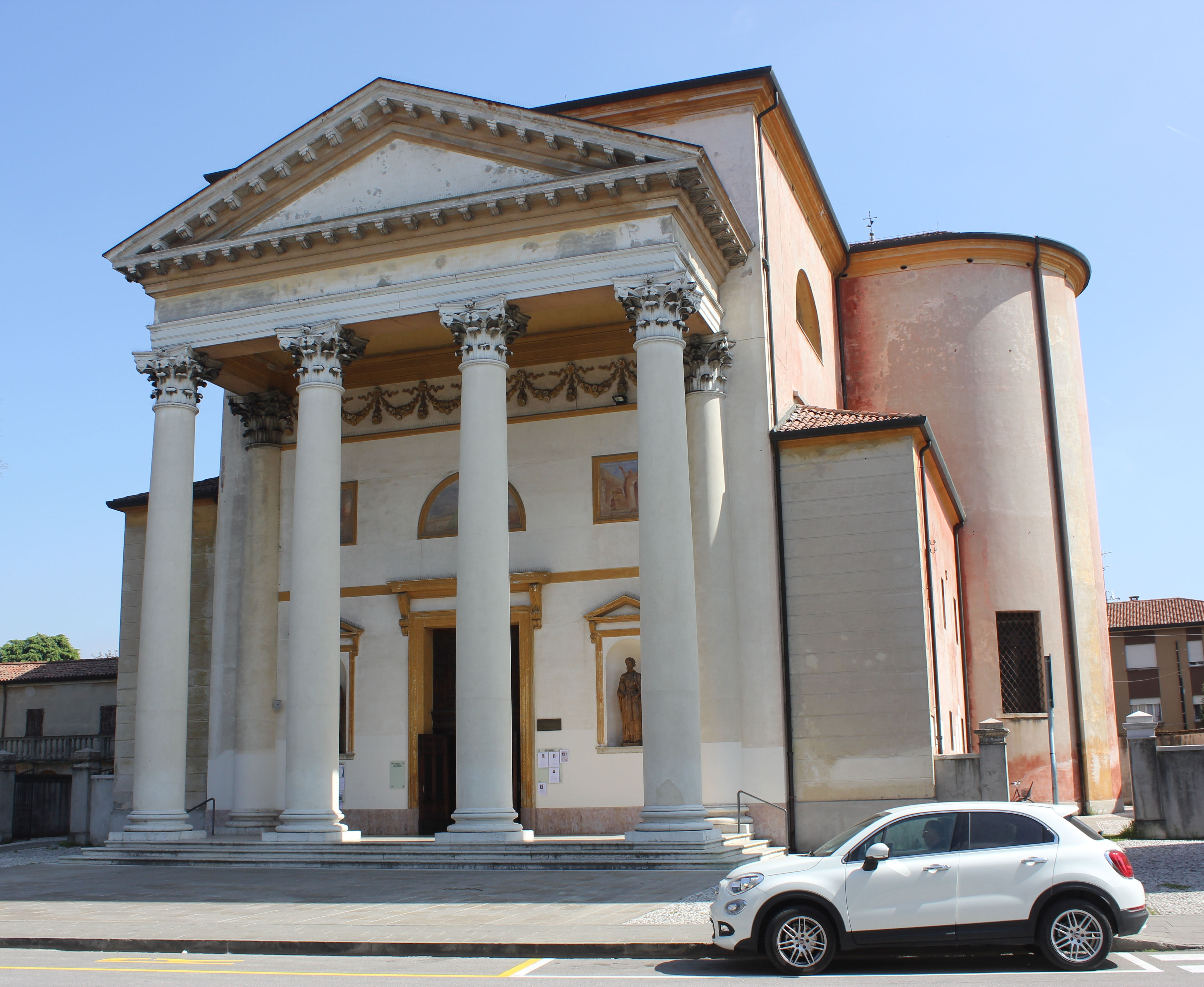 Castelfranco Veneto - Santa Maria della Pieve church